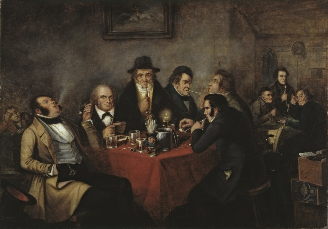 Painting, The Shakespeare Club, Montreal, 1847, Oil on canvas, 36 x 51 cm "The painting represents the Shakespeare Club, a dramatic and Literary society founded in Montreal on September 18, 1843. The club had rooms over Chalmer's bookstore on Great St. James Street and dined occasionally at Dolly's or at the Rialto near Donegana's Hotel on Notre Dame Street. As the painting shows a group of men seated and smoking, it is most likely the interior of the club rooms. The painting is signed and dated "C. Krieghoff, 47". Cornelius Krieghoff (1815-1872) joined the club by May 25, 1847 as his name appears on the list of ordinary members at this date. Six of the people in the painting are identifiable. In the upper right corner is Krieghoff himself, standing and smoking a long pipe. At the left of the table blowing smoke in the air is John Young (1811-1878) a prominent Montreal businessman and politician who at the time of the painting was a strong advocate of the St. Lawrence and Atlantic Railway to build a rail connection between Montreal and Portland. To his right F. W. Torrance was a rising young lawyer and future judge. Next, standing was Edmund Allen Meredith (1817-1899), then Principal of McGill University. To his right, Sir Allan Napier MacNab (1798-1862) Speaker of the House of Assembly, which sat in Montreal at this time. In the right front foreground, lighting his pipe is John Budden of Quebec, a member of the auction firm of A. J. Maxham and Company and a man who was to become one of Krieghoff's closest companions." – canadianshakespeares.ca